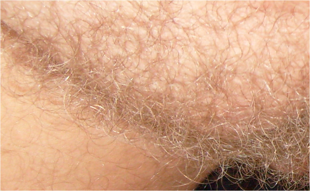 Blond pubic hair.